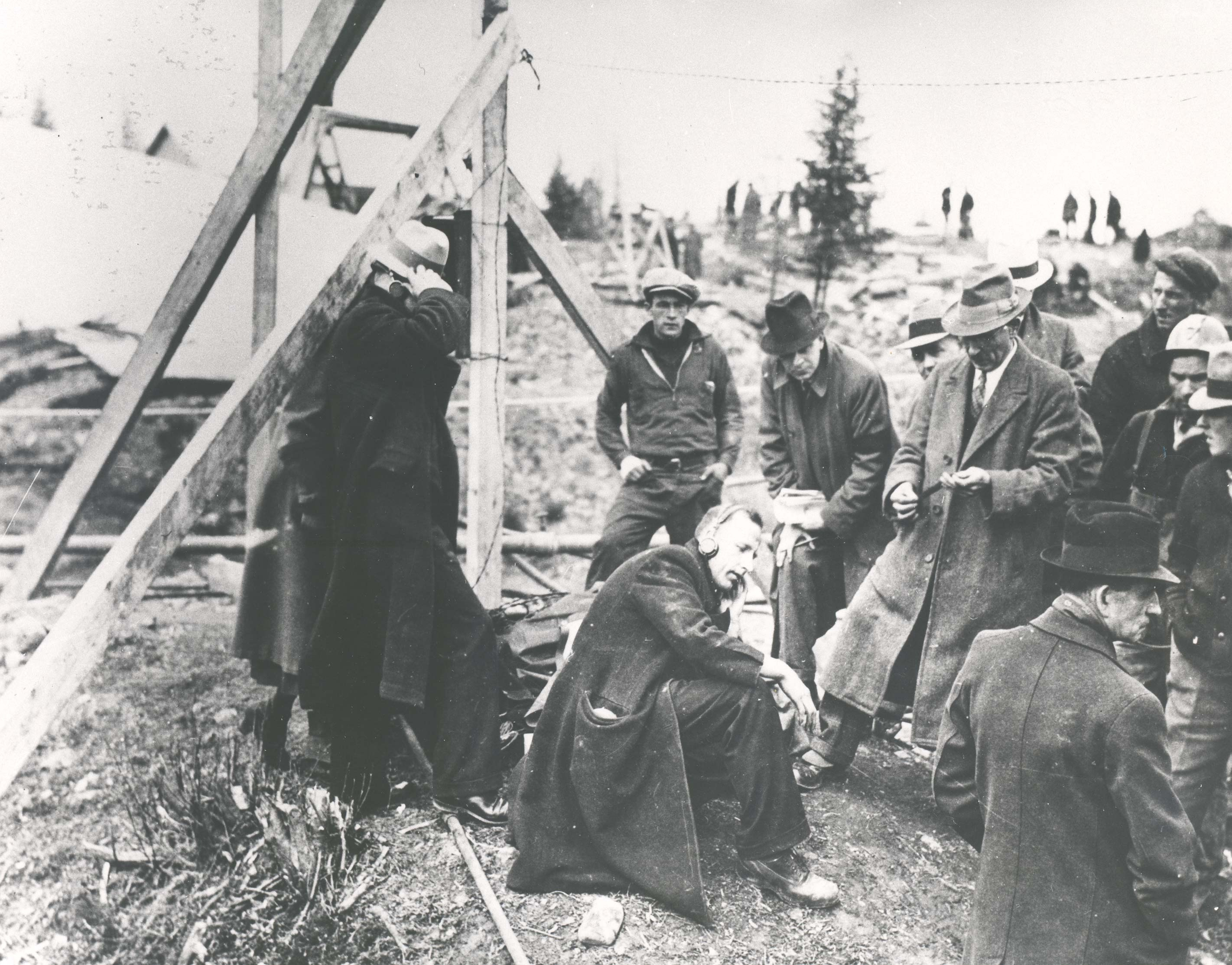 J. Allister Bowman, district plant superintendent, Maritime Tel & Tel, using earphones for word from entombed men in Moose River gold mine. On 12 April, Dr. D. E. Robertson, Herman Magill and Alfred Scadding were trapped by a cave-in at the 141-foot level of the Moose River gold mine, Halifax County, Nova Scotia, Canada. They remained entombed until rescue miners and draegermen reached them on 23 April. Unfortunately, Magill died in the interim from pneumonia which developed from exposure. Roland H. Sherwood's Story Parade includes a chapter on the disaster; he wrote that "two way conversation with the men below was important so the telephone company rushed in wire, men and amplifiers, while back at their workshop in Halifax... [employees built and tested] a tiny microphone that would be small enough to be lowered down a pipe with only one inch in which to slide freely." Reporters also converged on the disaster, providing the first-ever live radio news coverage in Canada. As Sherwood relates: The radio broadcasts began on Monday, April 20th, at 6 p.m. when two minute bulletins were given out at half hour intervals. During the course of the broadcasts, 93 two minute flashes were transmitted. These passed from the radio car at Moose River Mines over covered wire strung along the ground and on the trees, over 17 miles of built up circuit on the farmer line to Middle Musquodoboit, then on to Halifax, out onto the telegraph lines of the Canadian Pacific to Ottawa. From there it was distributed to 58 stations over the entire network of the Canadian Radio Broadcasting Commission in Canada, and on to the networks of the United States to serve 650 radio stations there. Everywhere on the North American continent, sponsors of radio programs cut their regular shows by two minutes in order that their listeners might receive the radio bulletins from Moose River. This was the largest broadcast hookup originating on this continent, and set a world record for that time.